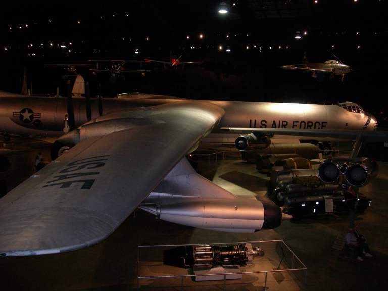 B-36 Peacemaker at the National Museum of the United States Air Force